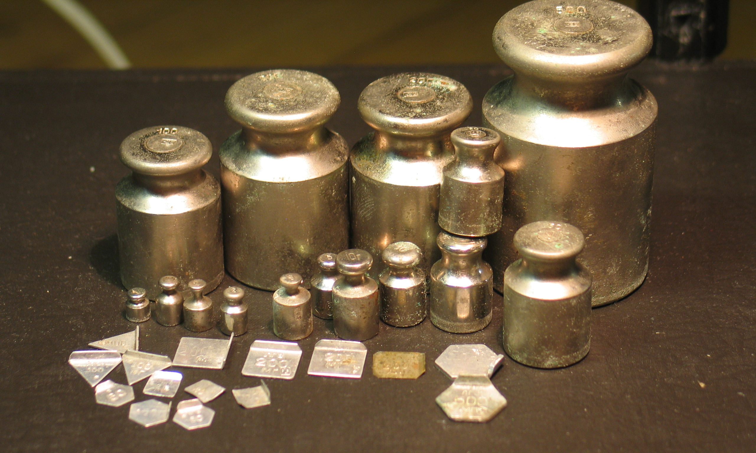 Weights from 20 mg to 500 g. Names of units are in Cyrillic (МГ, Г). Unlike many things manufactured in the U.S.S.R. these weights were not proved to be durable: a metal noticeably corroded in about 30 years. The image was slightly cropped from the photo.